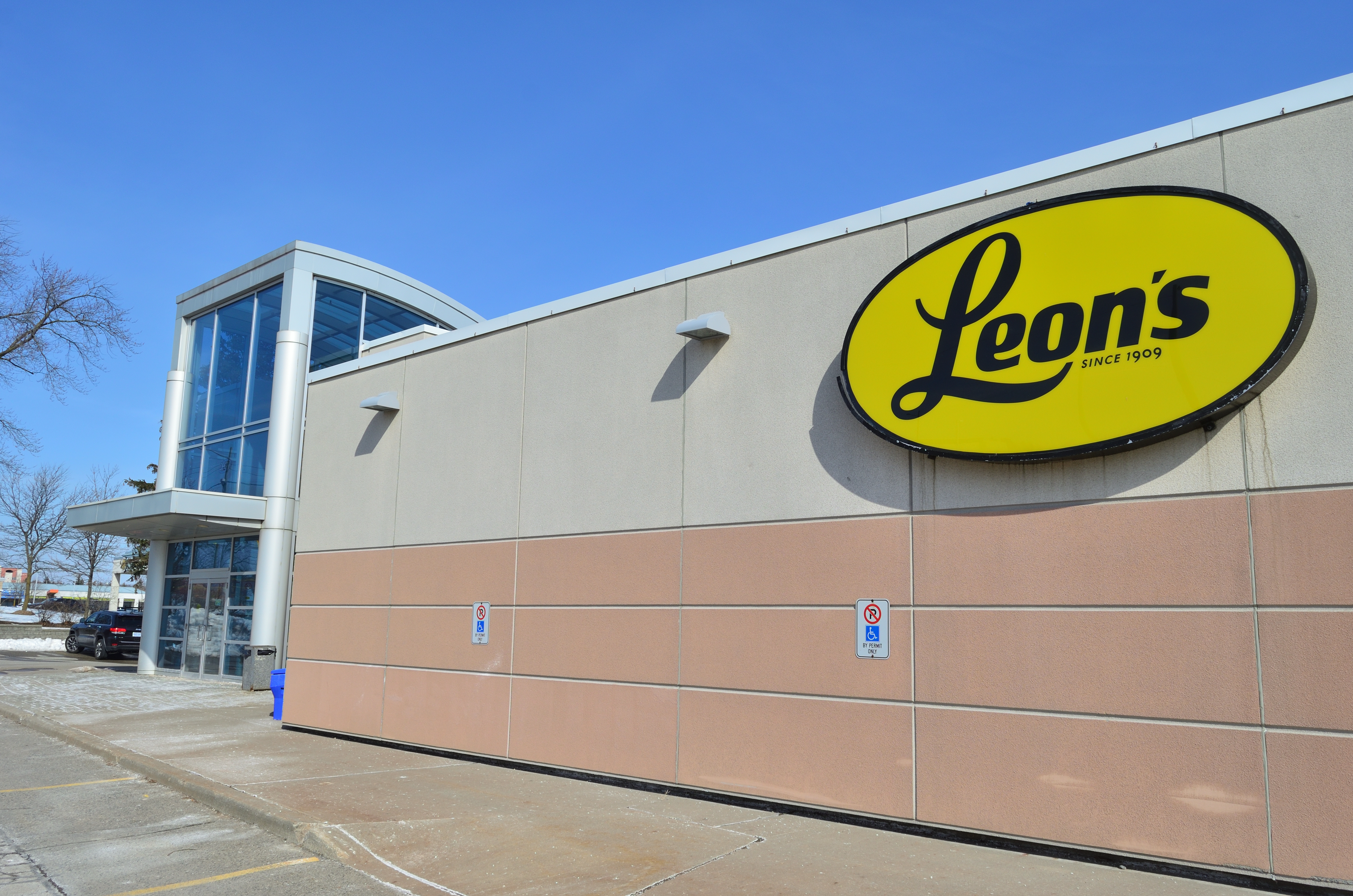 Leon's Furniture - Address: 10875 Yonge St, Richmond Hill, ON L4C 3E3